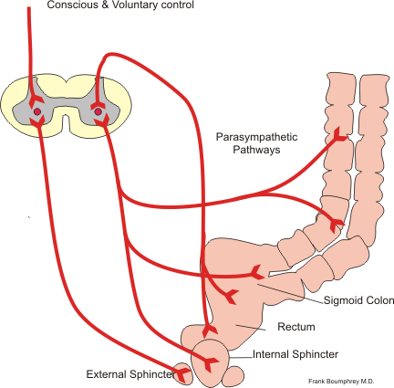 Voluntary and parasympathetic pathways of defecation reflex